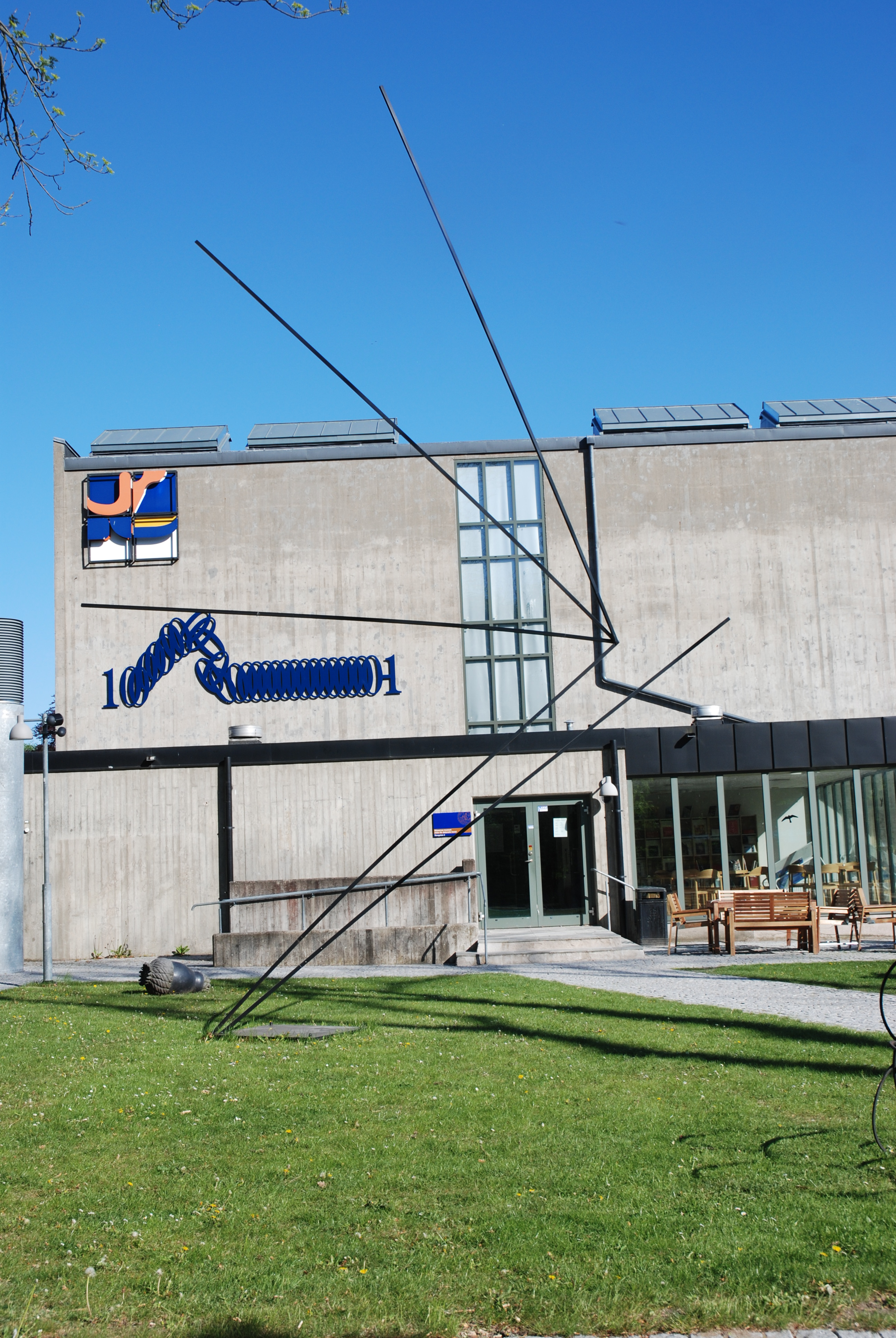 Sculpture by Olle Baertling outside Skissernas Museum in Lund, Sweden (model of Asamk, proposal for sculpture at Sergels Torg in Stockholm]